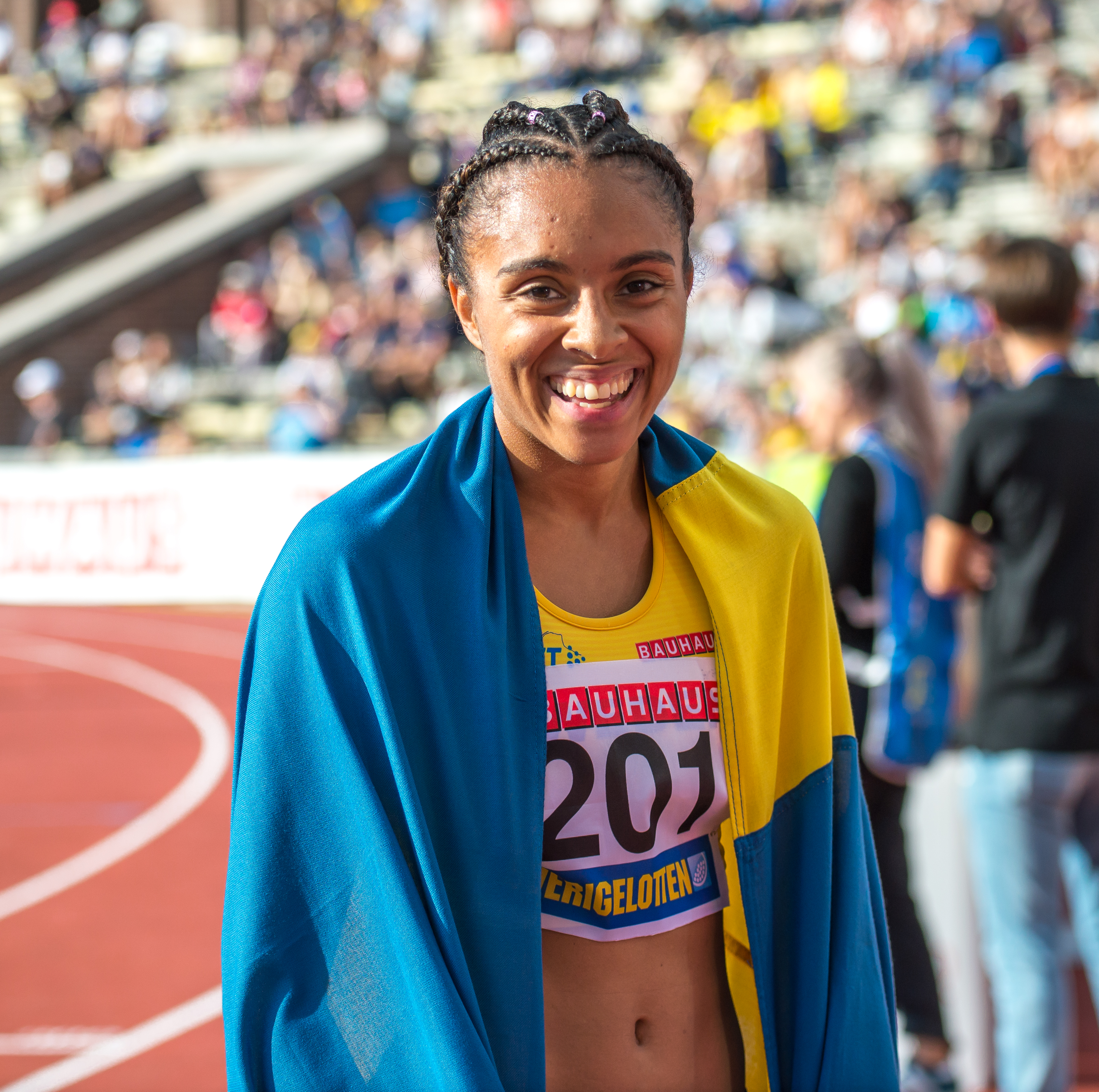 Irene Ekelund during the Finland-Sweden Athletics International at Stockholms Stadion on August 24, 2019.